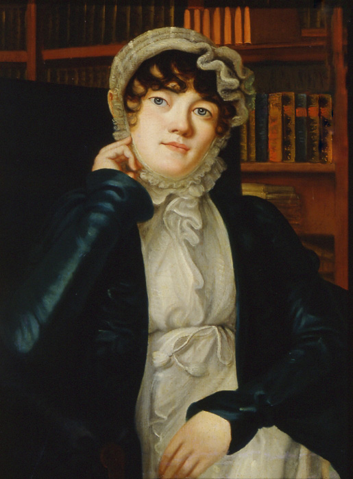 Portrait of Russian writer Caroline Pavlova by Vasili Fyodorovich Binemann (1795-1842).